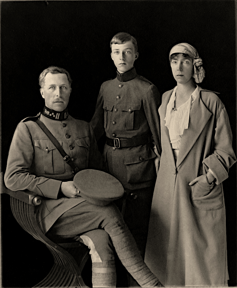 King Albert I of Belgium with his son and wife.